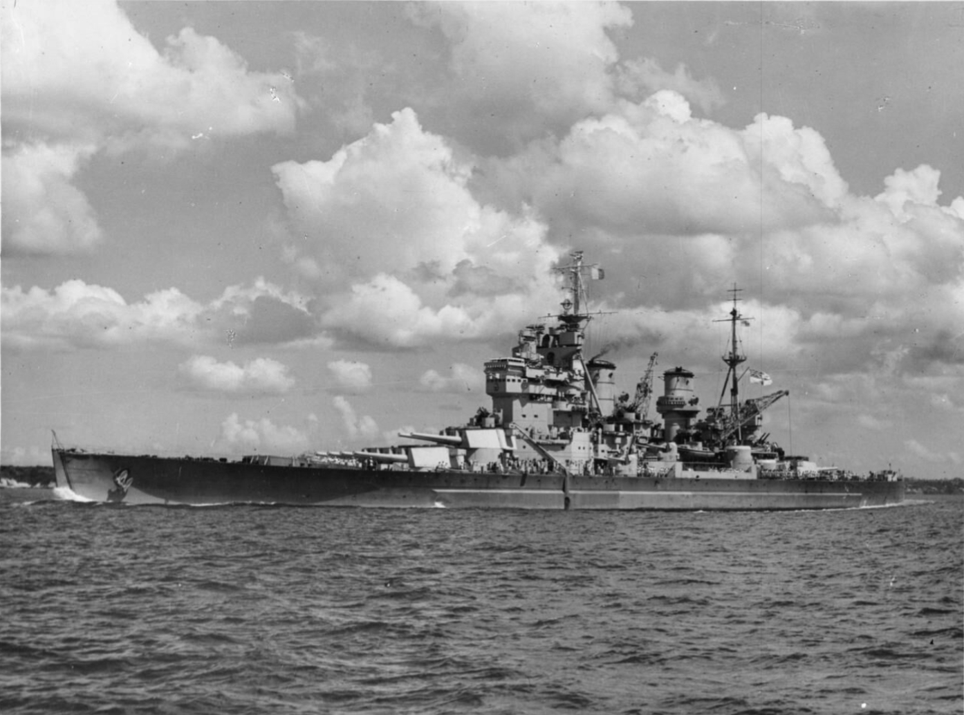 The Royal Navy battleship HMS Howe (32) at Auckland, New Zealand. The flagship of Admiral Sir Bruce Fraser, Commander in Chief British Pacific Fleet, visited Auckland 2-10 February 1945.